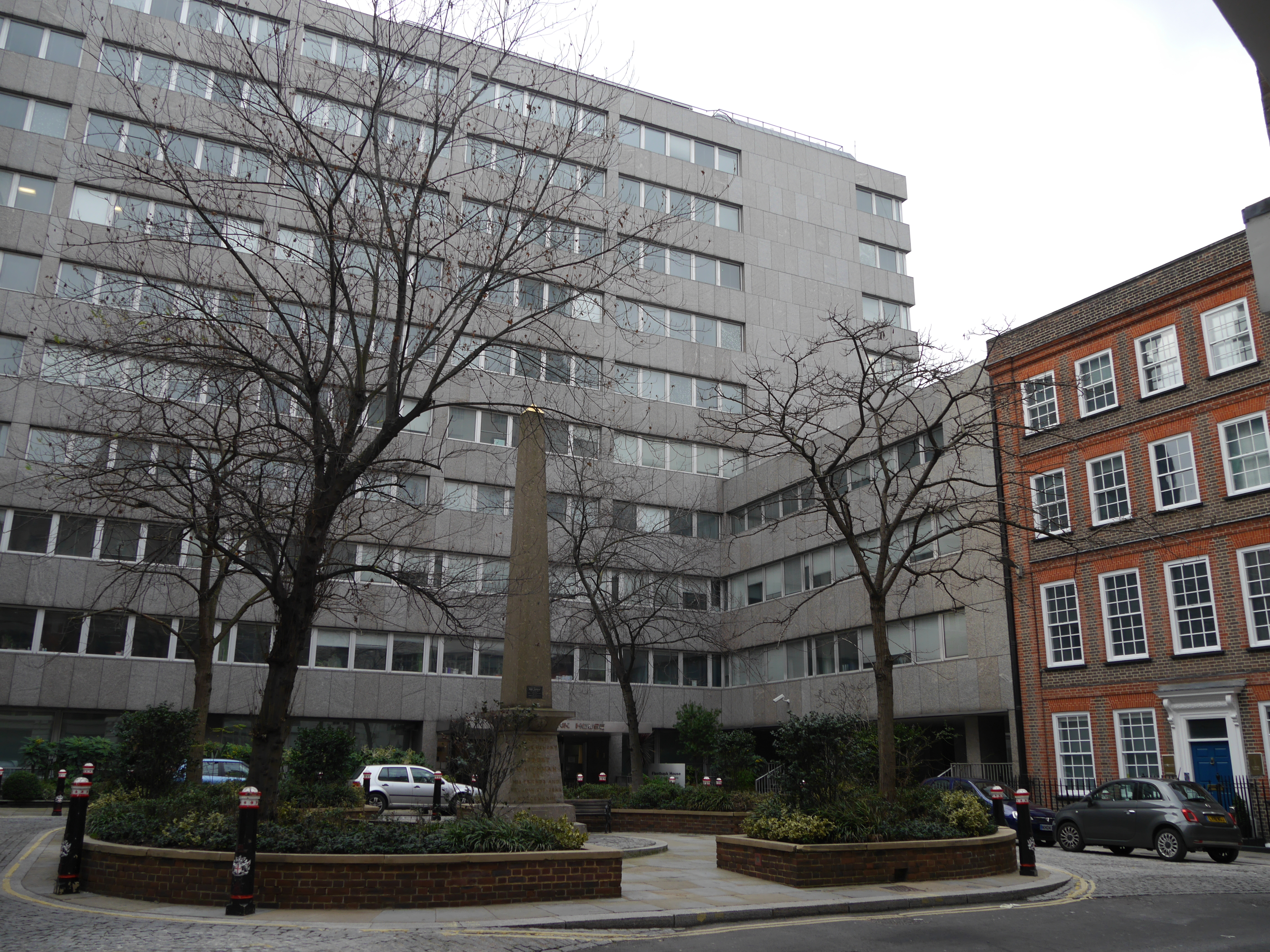 Salisbury Square, London, January 2018